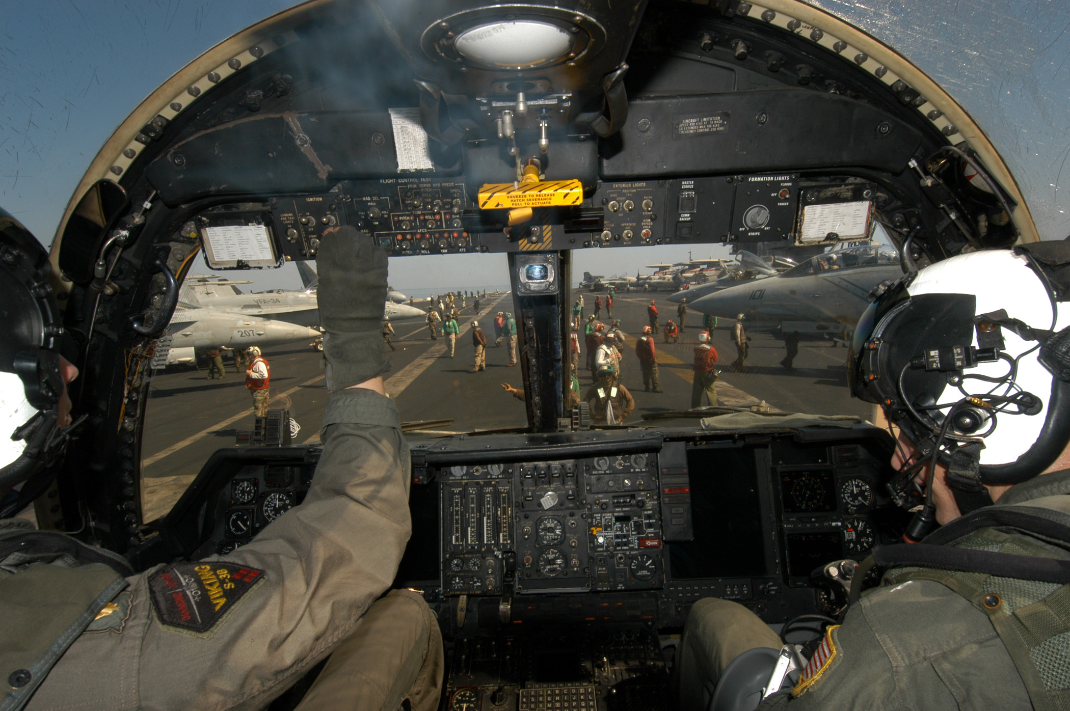 Arabian Gulf (Sept. 19, 2004) - A Naval Aviator and a Naval Flight Officer (right seat) assigned to the “Diamond Cutters” of Sea Control Squadron Three Zero (VS-30) complete pre-flight checks of their S-3B Viking prior to launch aboard the conventionally-powered aircraft carrier USS John F. Kennedy (CV 67). S-3B Aircraft are tasked by the Carrier Strike Group (CSG) commanders to provide Anti-Surface Warfare (ASUW), surface surveillance and intelligence collection, electronic warfare, mine warfare, coordinated search and rescue, and fleet support missions including air wing tanking. Kennedy and embarked Carrier Air Wing Seventeen (CVW 17) are deployed to the 5th Fleet area of responsibility (AOR) in support of Operation Iraqi Freedom (OIF). Units in the Kennedy Carrier Strike Group are working closely with Multi-National Corps-Iraq and Iraqi forces to bring stability to the sovereign government of Iraq. In this photo, the engine "tapes" indicate that the left engine is started. The pilot's right hand is on the starter switch for the right engine. The "fog" near the top of the picture is cold air from the airplane's powerful air conditioning system, which provides necessary cooling for the onboard electronics. U.S. Navy photo by Photographers Mate 3rd Class Joshua Karsten (RELEASED)